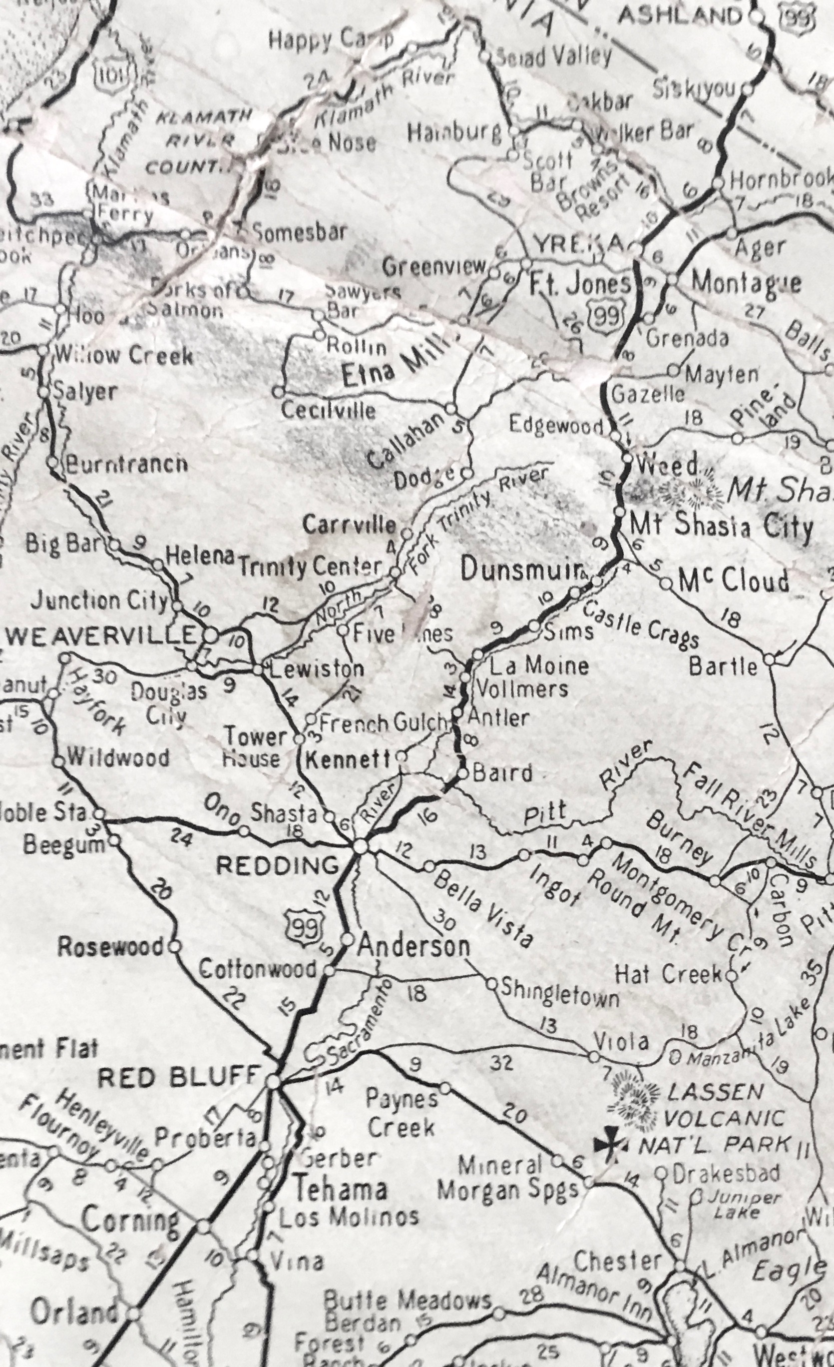 Section of a 1937 highway map along US99